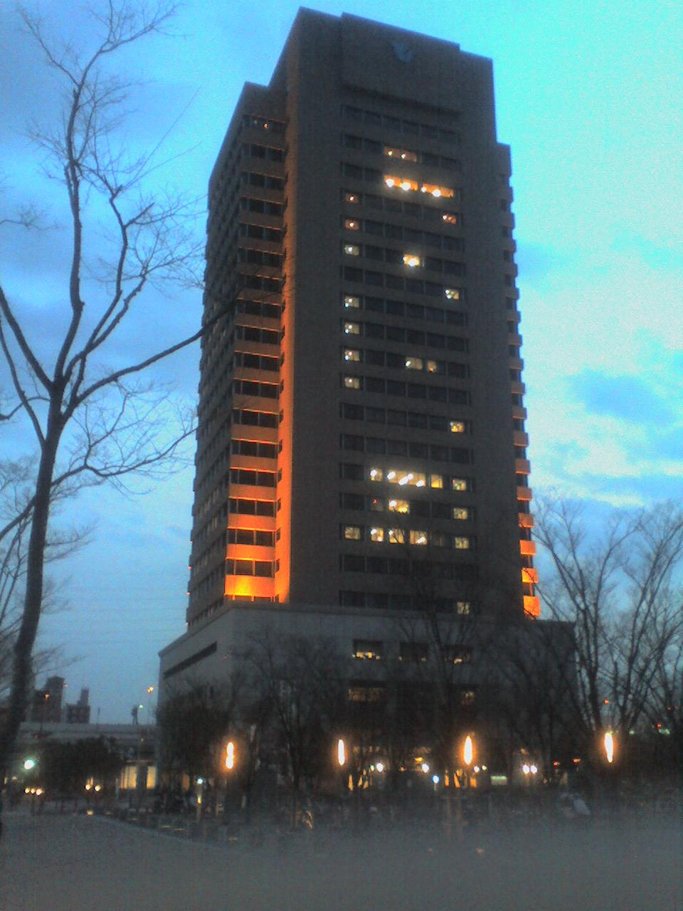 HigashiOsaka-HeadOffice